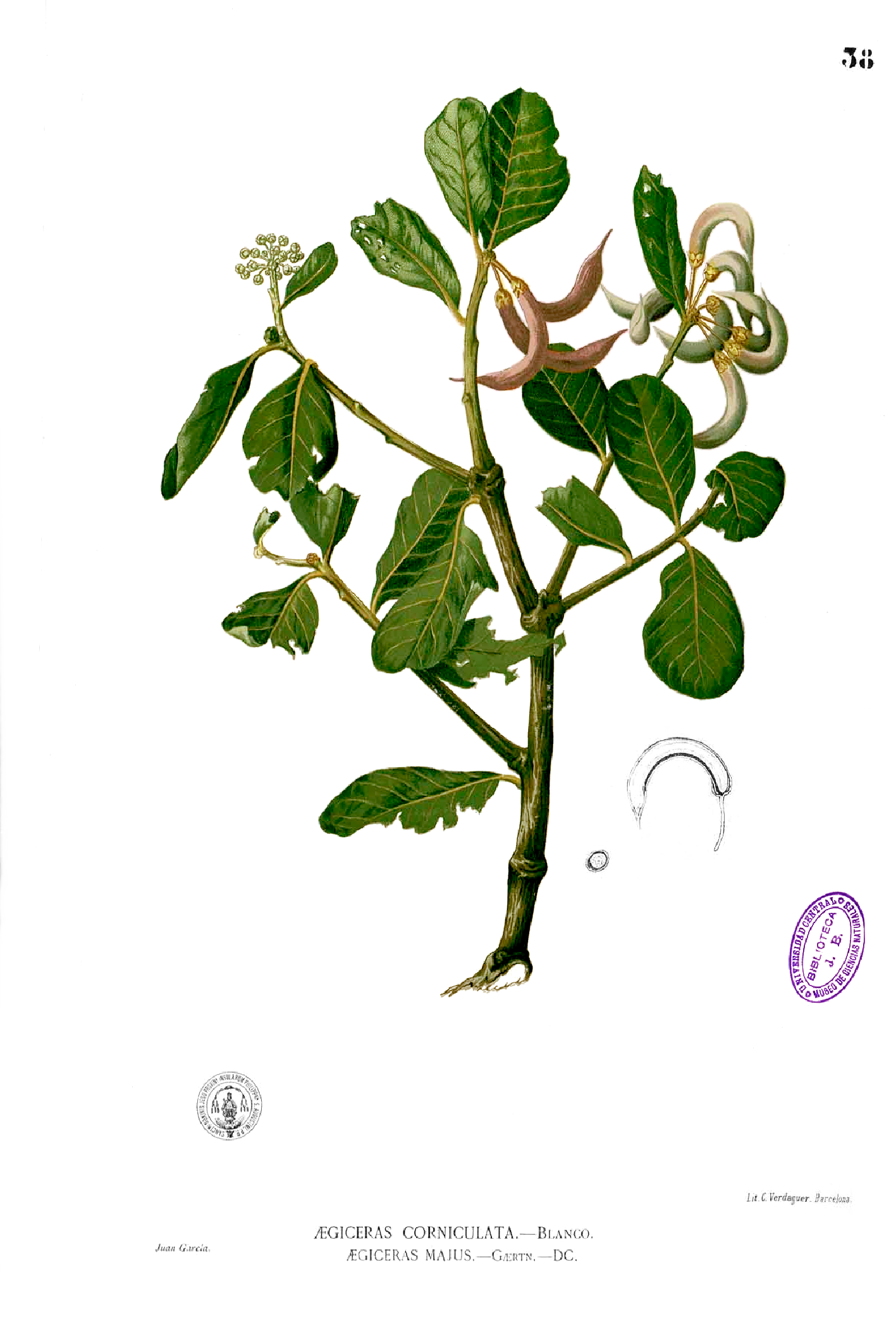 Plate from book